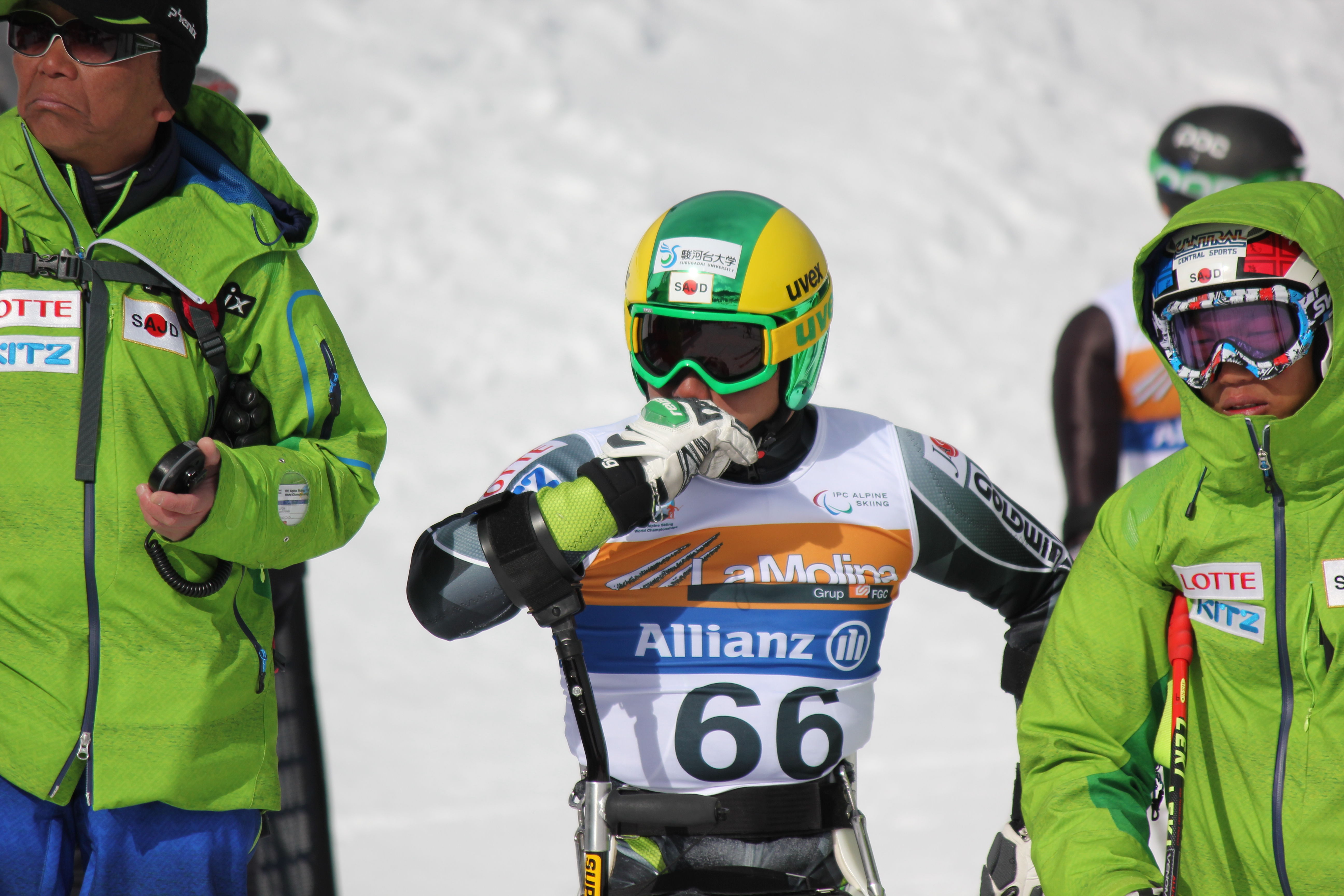 2013 IPC Alpine World Championships in La Molina, Spain on Super combined competition day for the first run in the men's sitting event.